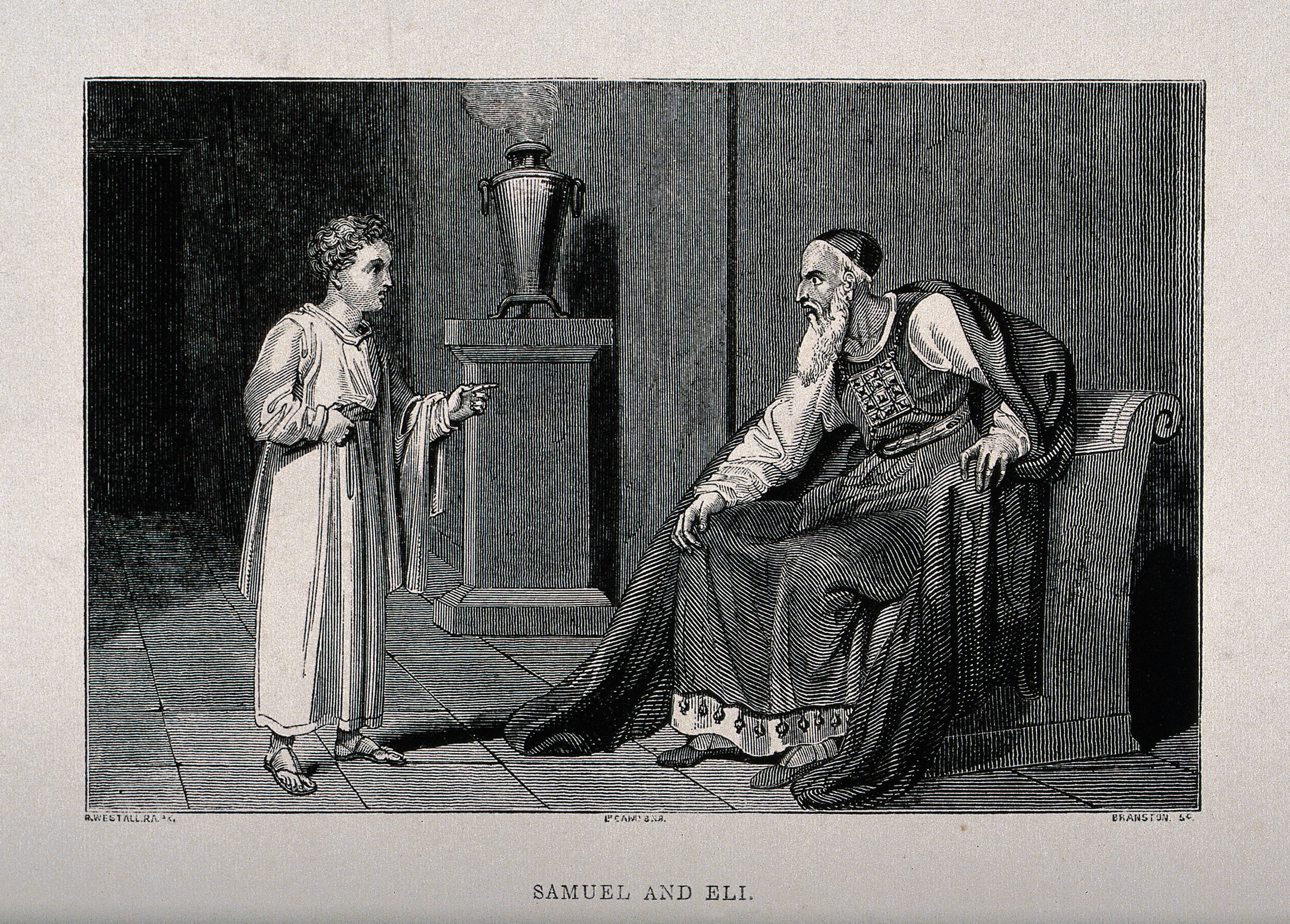 The child Samuel tells Eli about God's displeasure with him. Wood engraving by A.R. Branston after R. Westall. Iconographic Collections Keywords: Eli; Allen Robert Branston; Samuel; Richard Westall